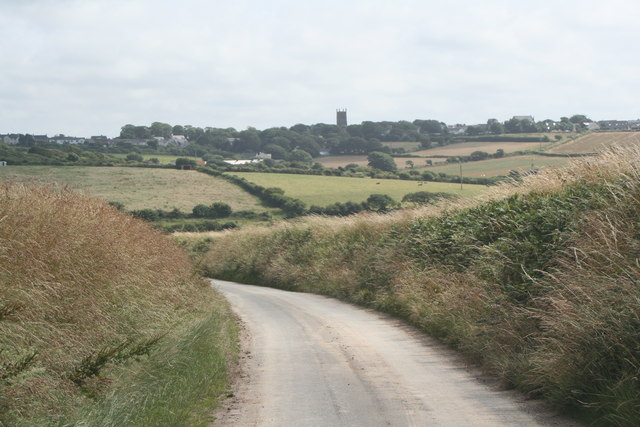 Country lane between Trevoll and St Newlyn East Near Trendrean, looking towards St Newlyn East.